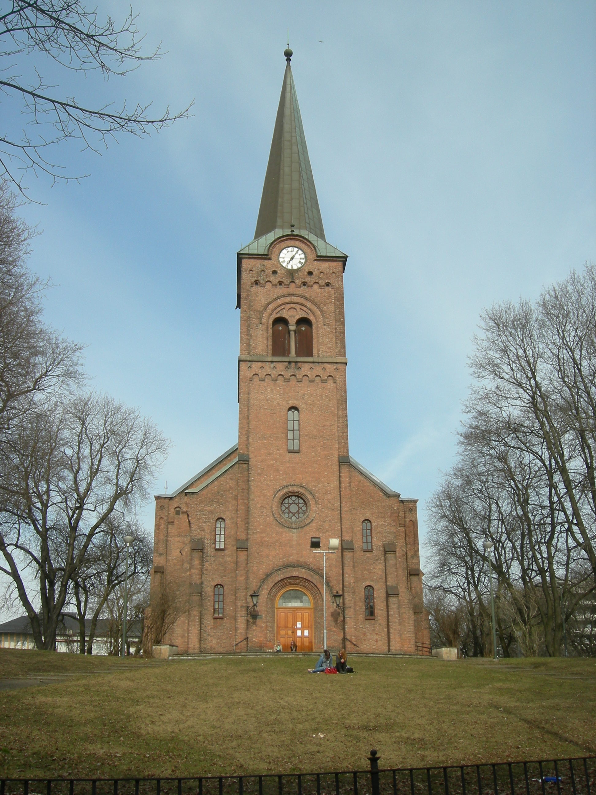 Sofienberg church, built 1877, seen fra south, Oslo, Norway